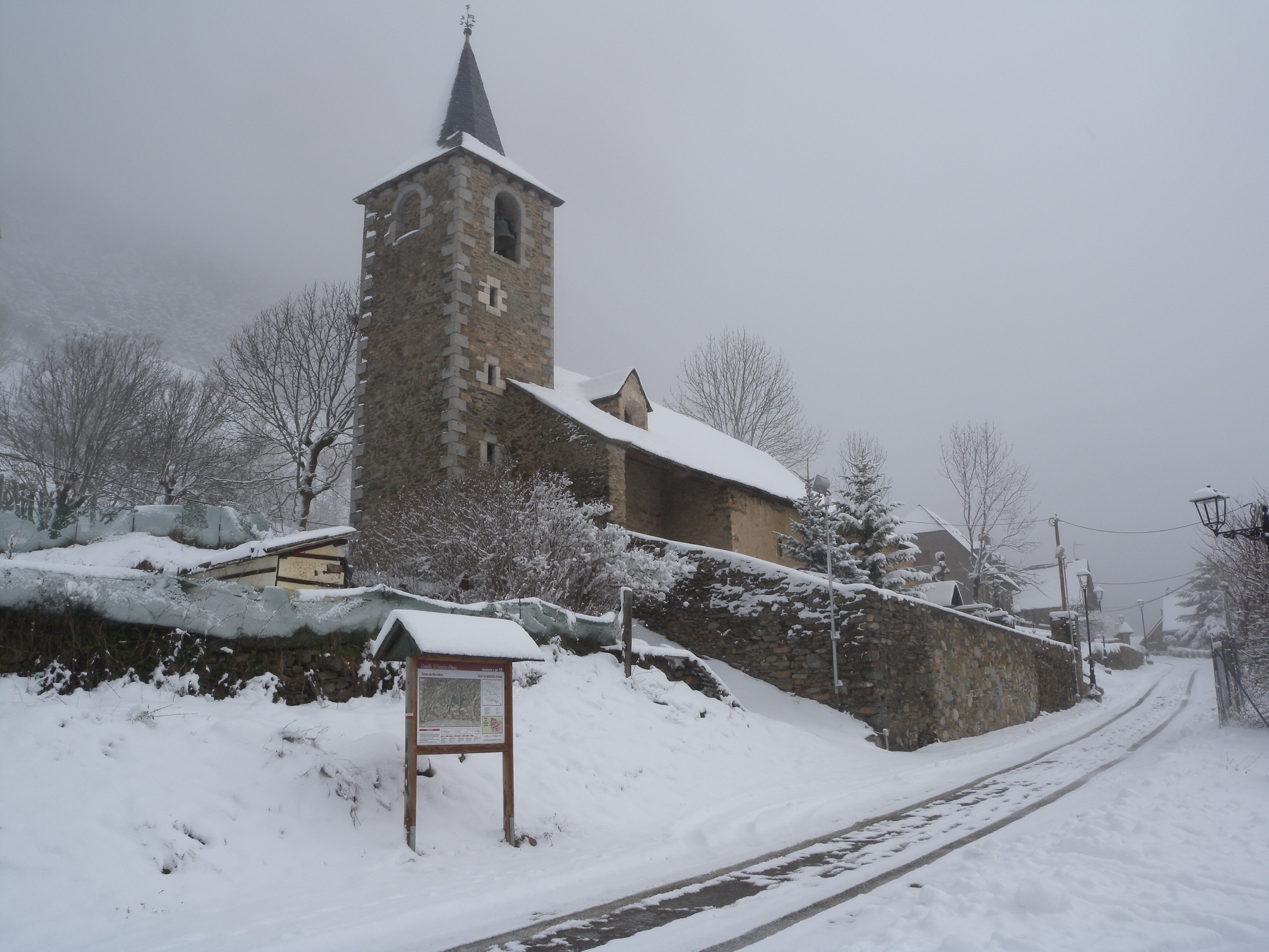 Sant Laurenç